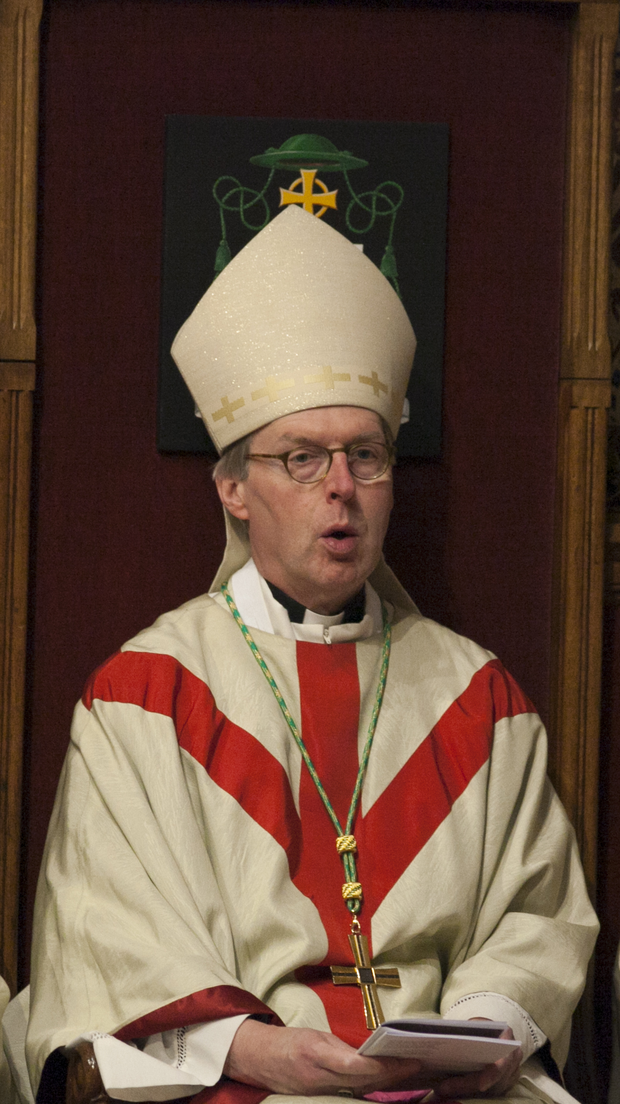 Bishop de Korte of Groningen Leeuwarden with both his vicars